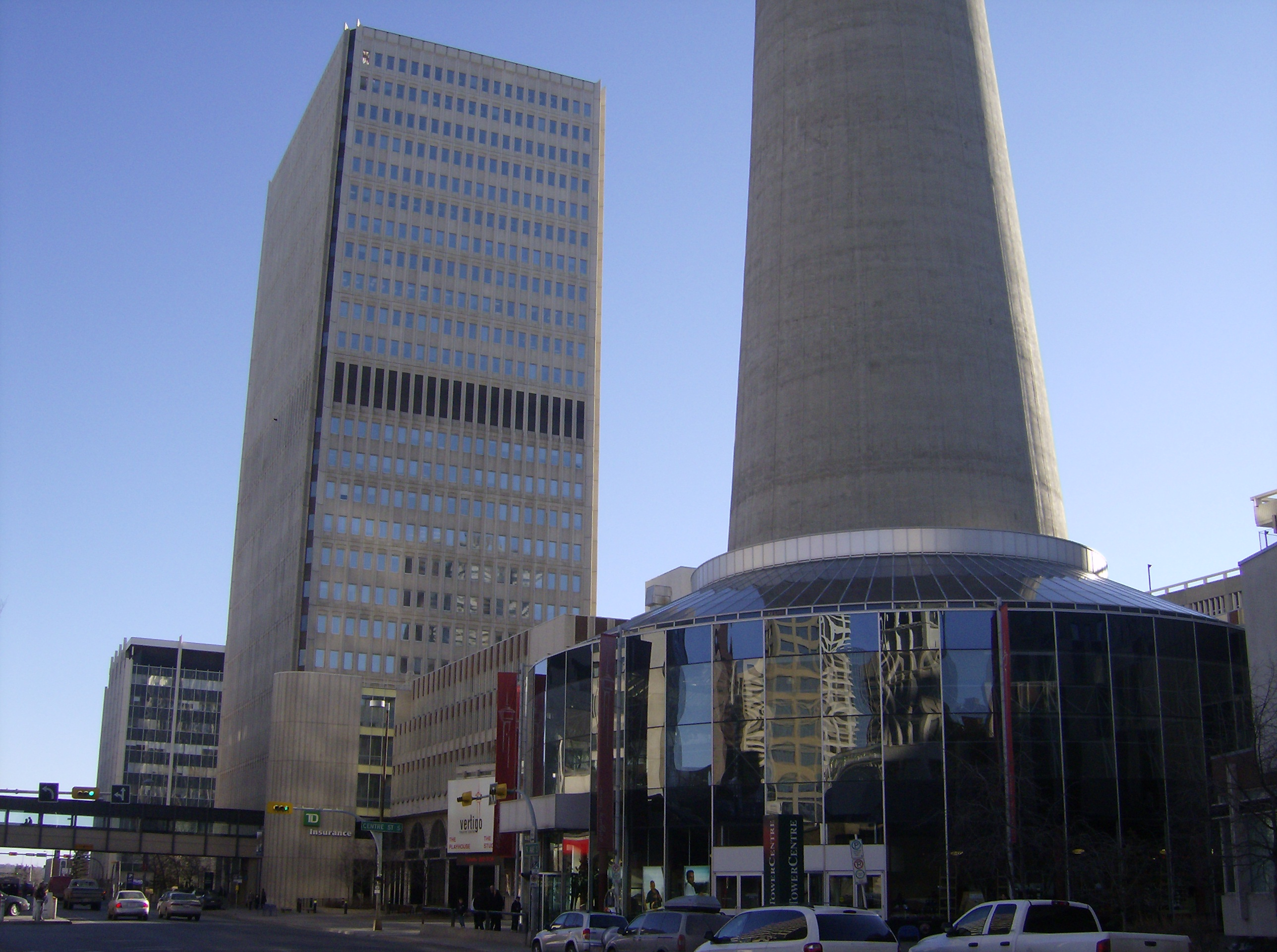 One Palliser Square (left) and the base of the Calgary Tower (right), located in Calgary, Alberta, Canada. One Palliser Square is a 27 story office building.